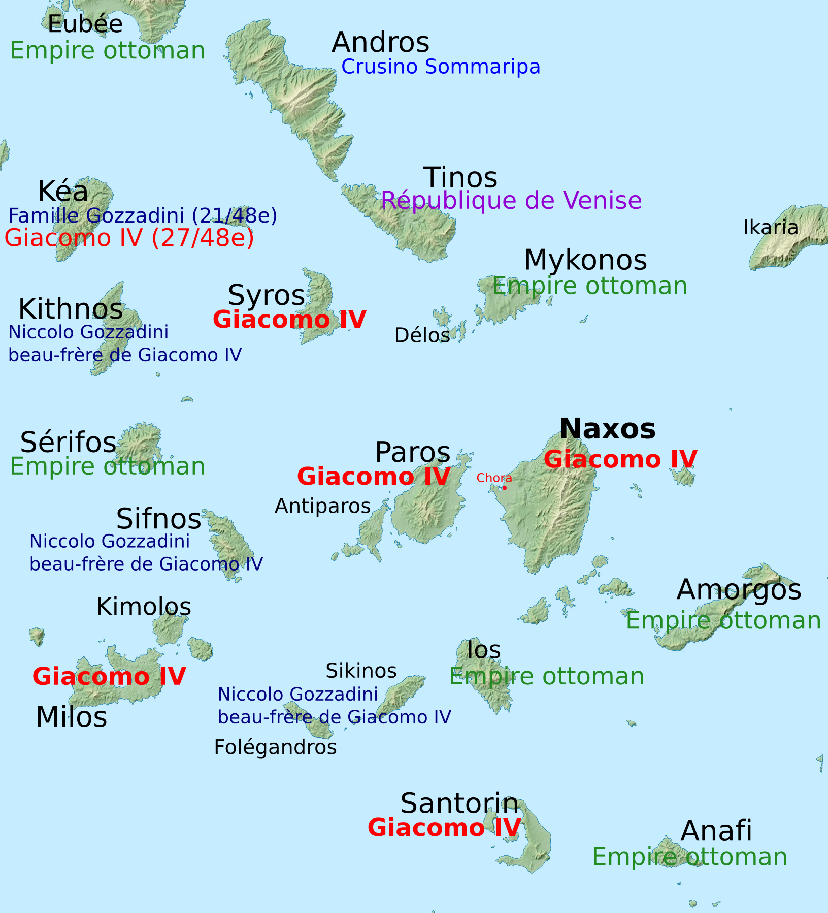 Duchy of Naxos and Princes in the Cyclades at the time of Giacomo IV Crispo (1564-1566)